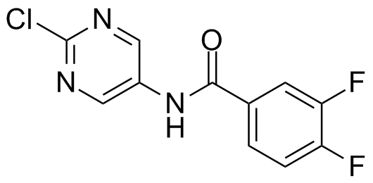 ICA-069673. The file was made with ChemBioDraw Ultra 12. As a reference, the digital object identifier is